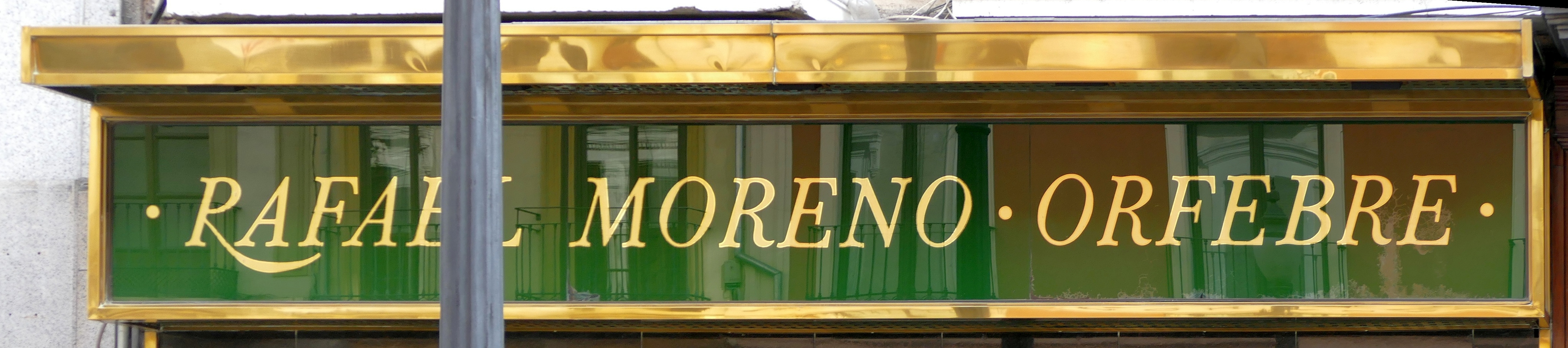 Shop signin Granada (Calle Reyes Católicos, 28), April 2017, showing the interpunct to separate the name from the profession (orfebre = goldsmith) and surrounding the whole text